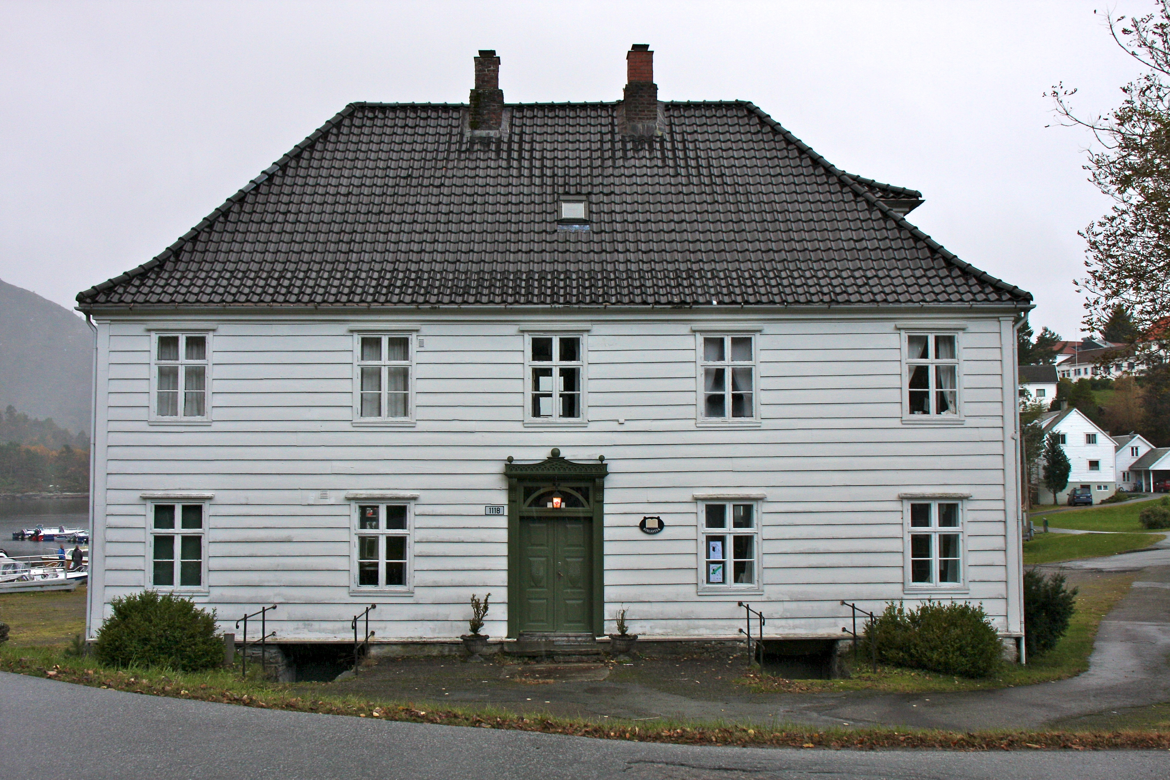 Gulen municipality, Norway.